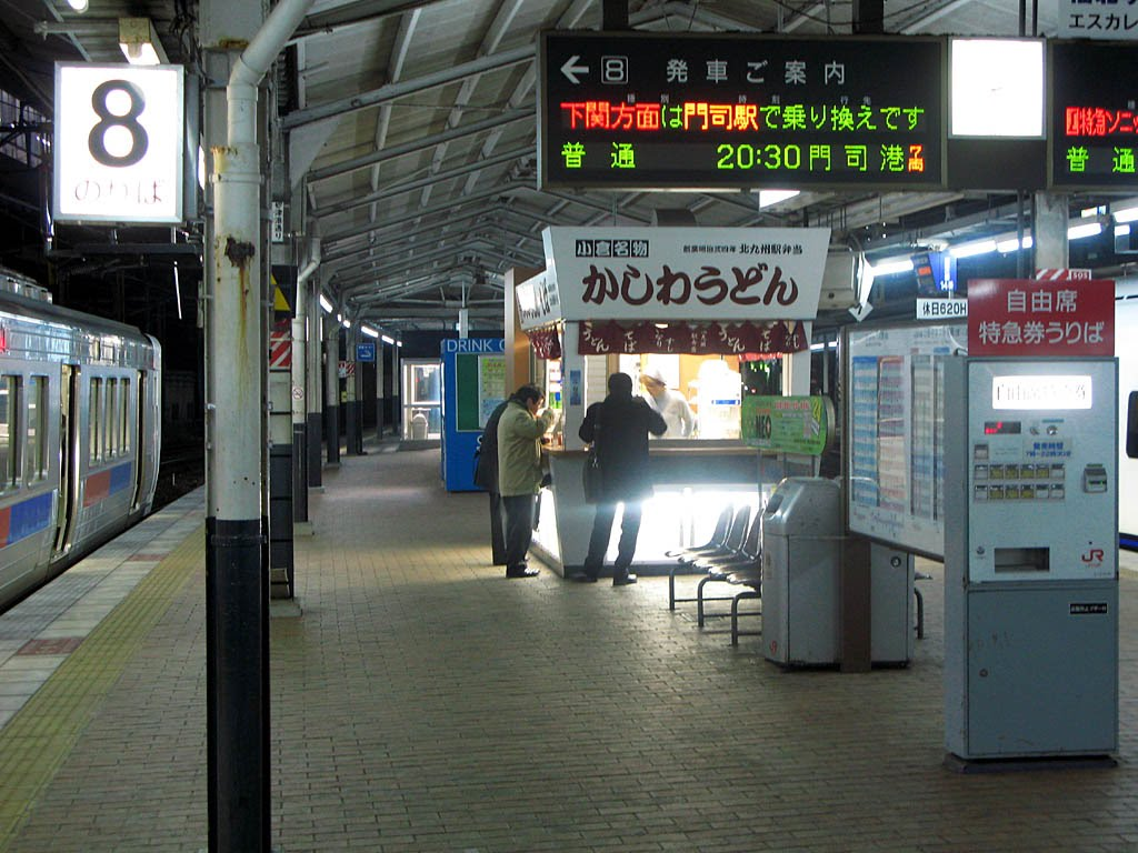 Kokura Station.